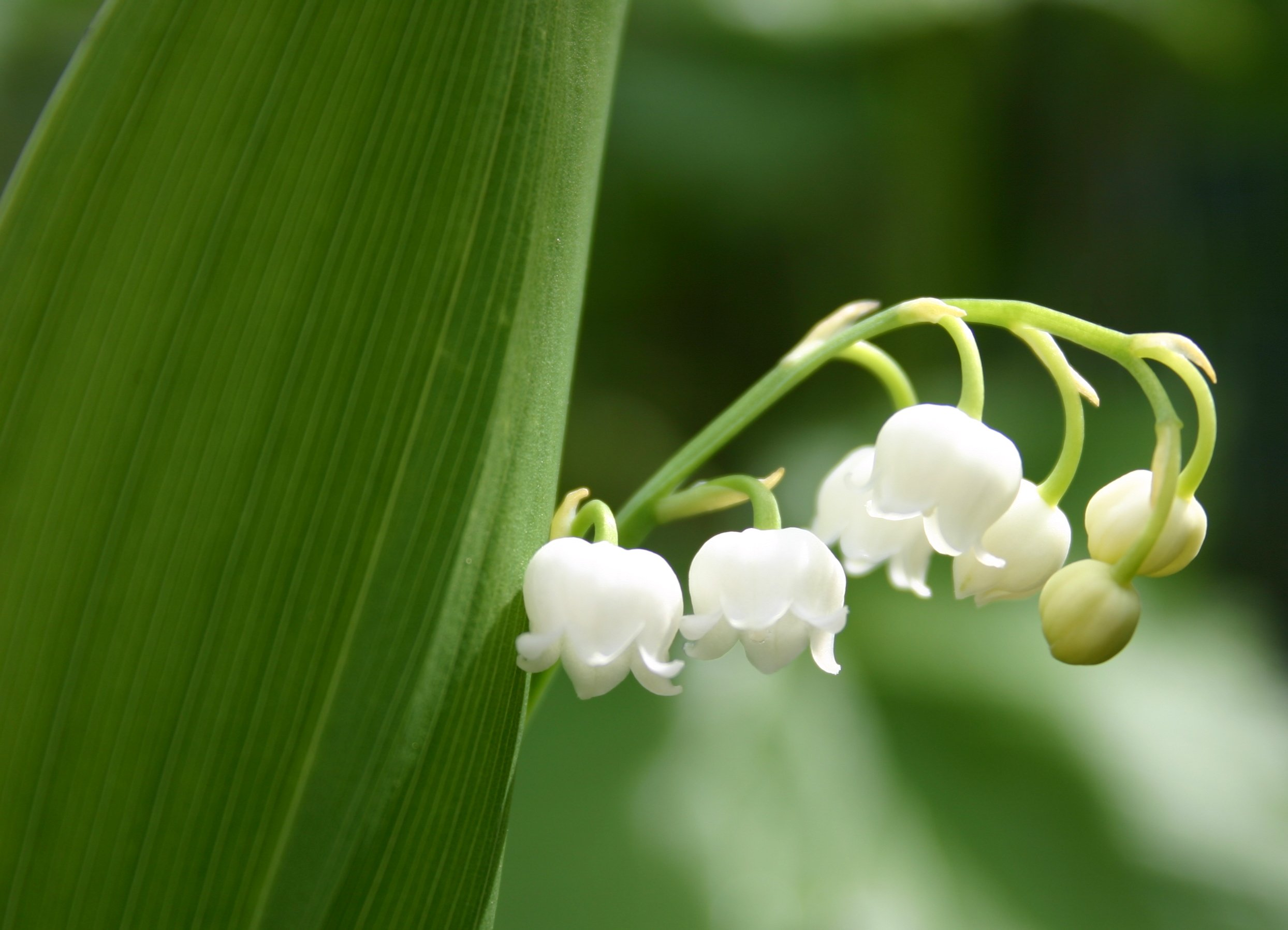 Lily of the valleyEsperanto: Konvalo, majfloro